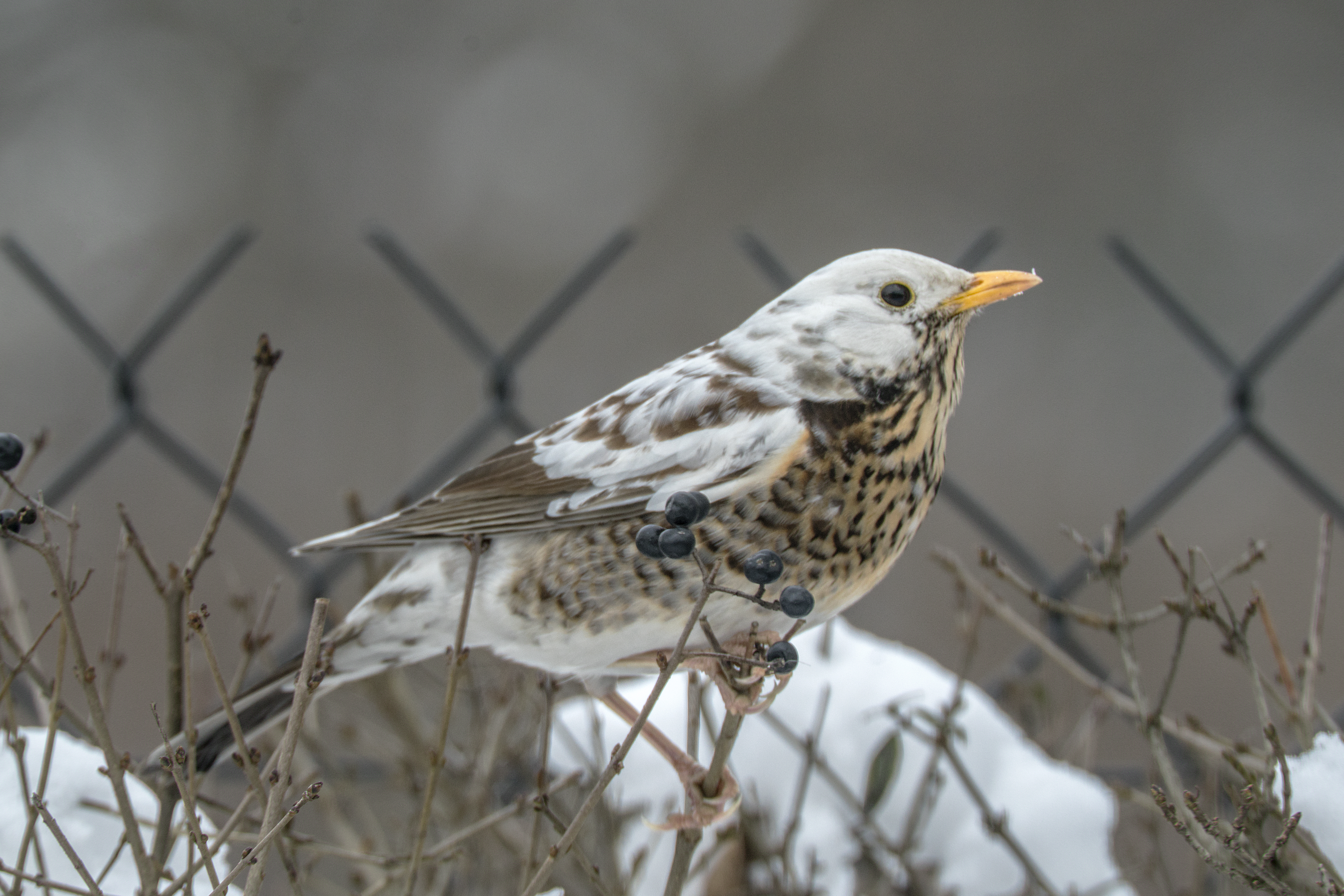 Leucistic Fieldfare Turdus pilaris, Lodz(Poland)